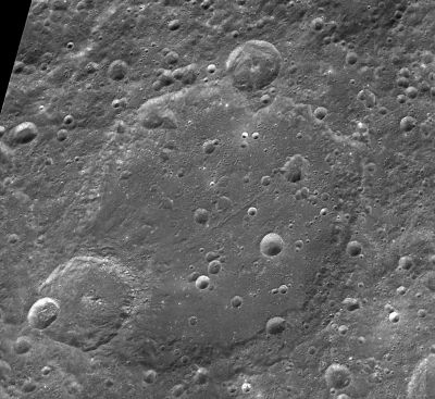 d'Alembert crater, crater Slipher is at bottom left